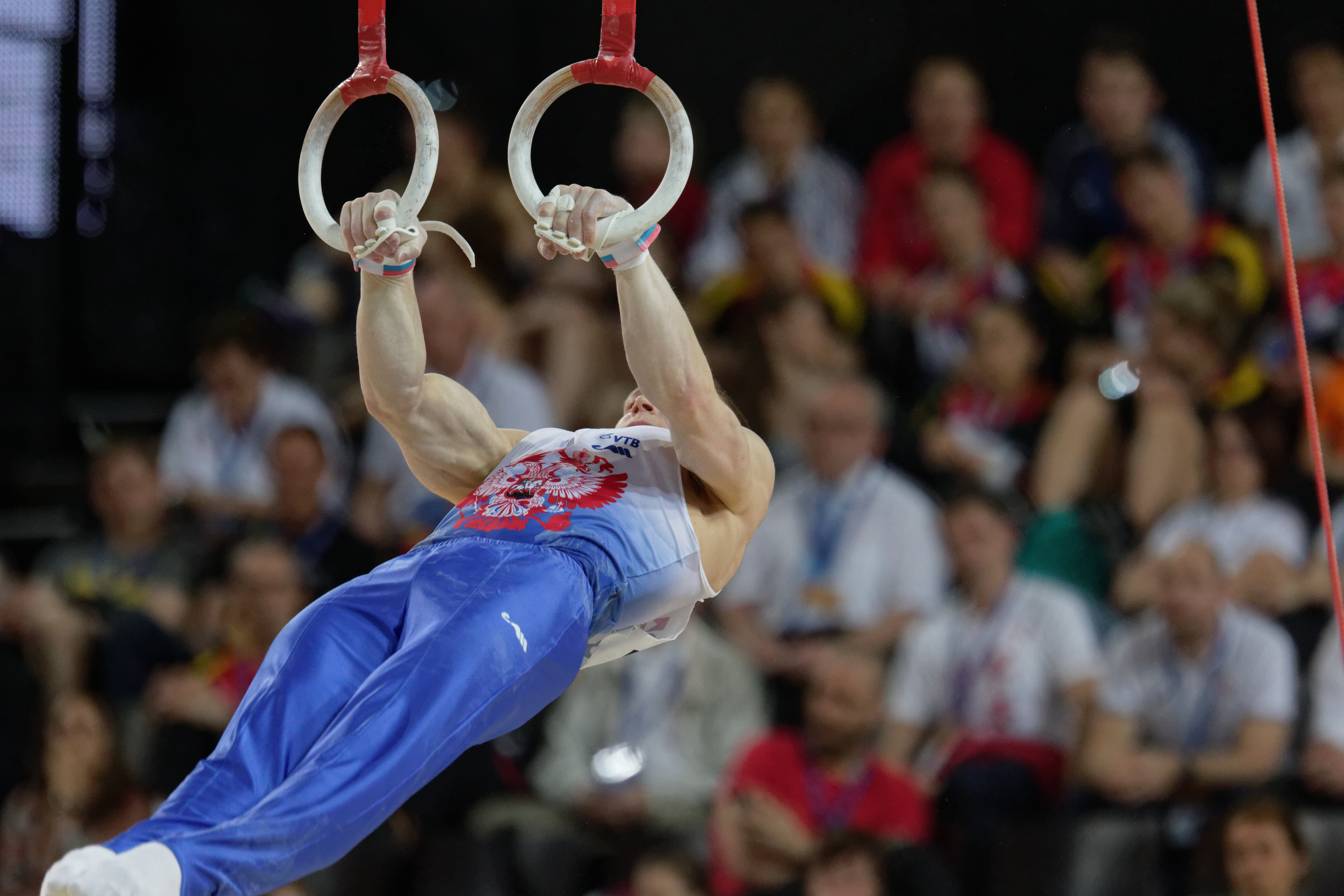 2015 European Artistic Gymnastics Championships. Rings.